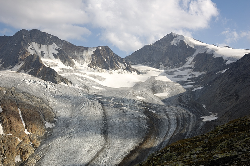 Mts. Similaun, Marzellspitze and glacier Marzellferner from Marzellkamm